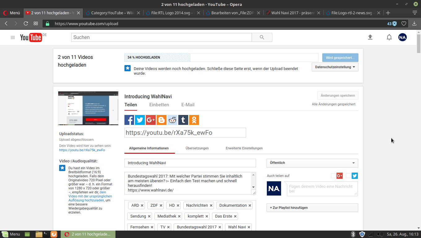 A user is uploading videos on YouTube with Opera Web Browser at Linux Mint.